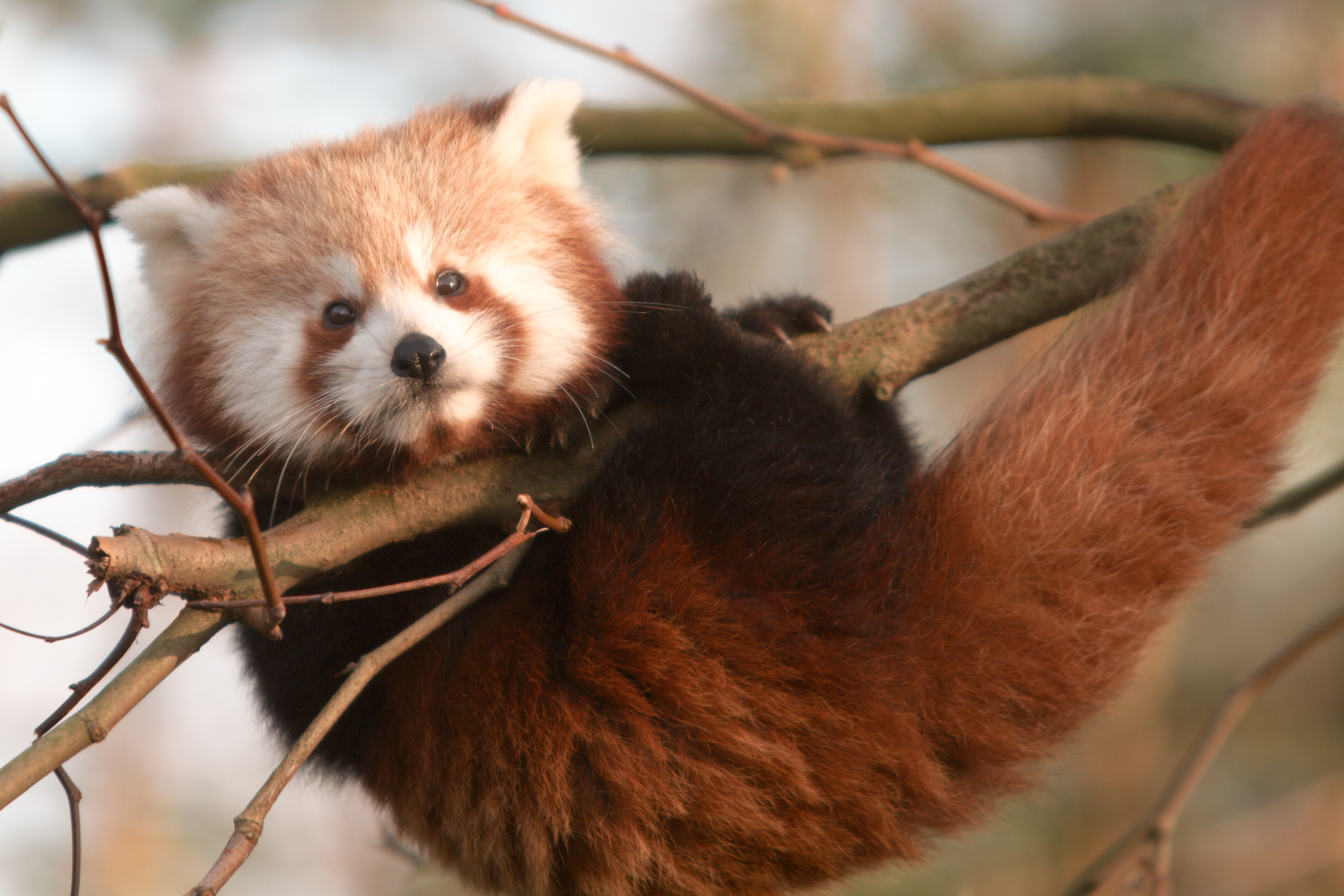 Red Panda almost falling of